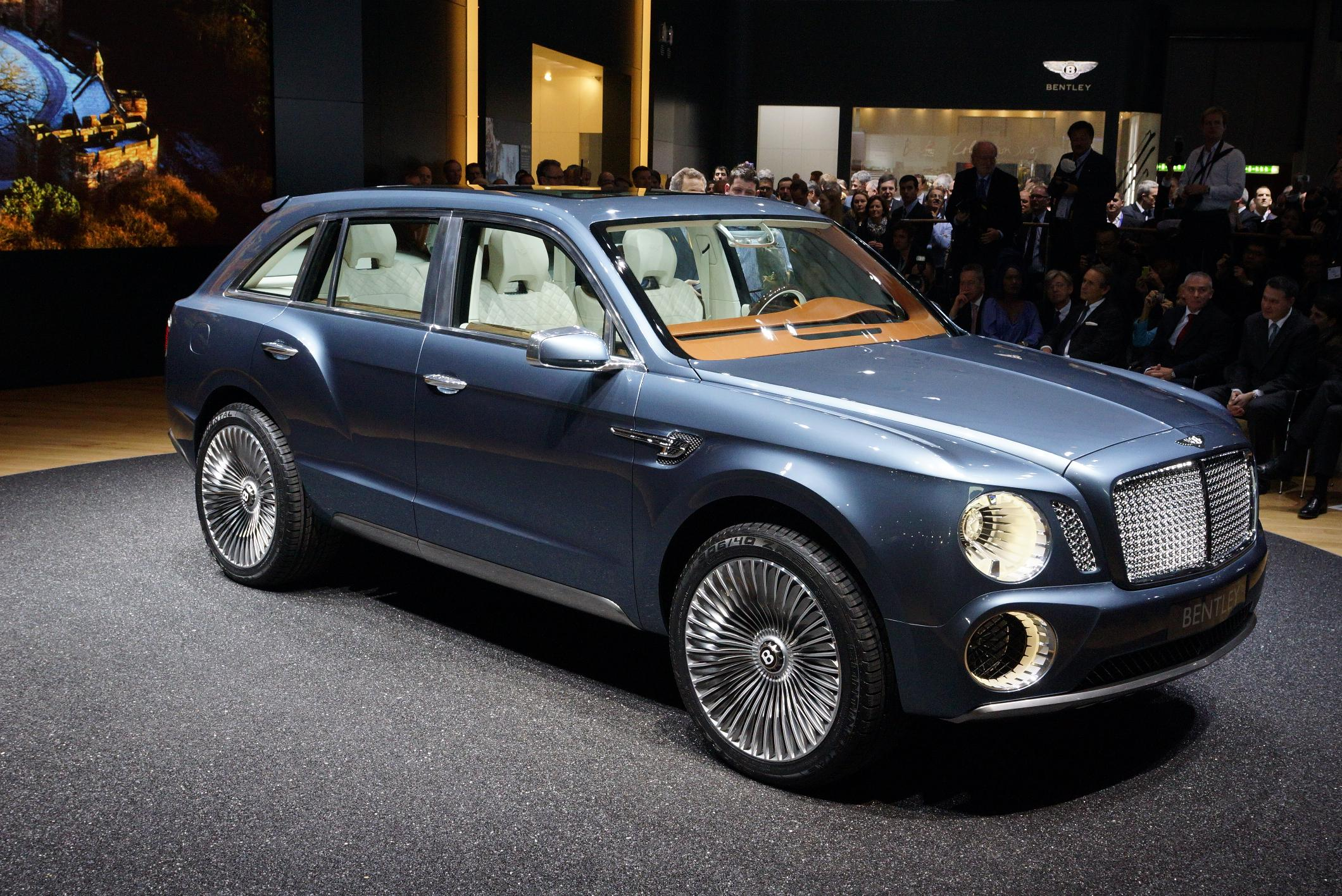 There was plenty of high-end metal being unveiled at the Geneva Motor Show, but the likes of the one-off Lamborghini Aventador J, the Ferrari F12 Berlinetta, and the Maserati GranTurismo Sport, and others weren’t the real show stoppers... there were plenty of the big-end players downsizing: Mercedes-Benz A-Class, Audi A3, Volvo V40, and much more. Here’s what flicked our switch. You can check out more on the 2012 Geneva Motor Show here at; as well as